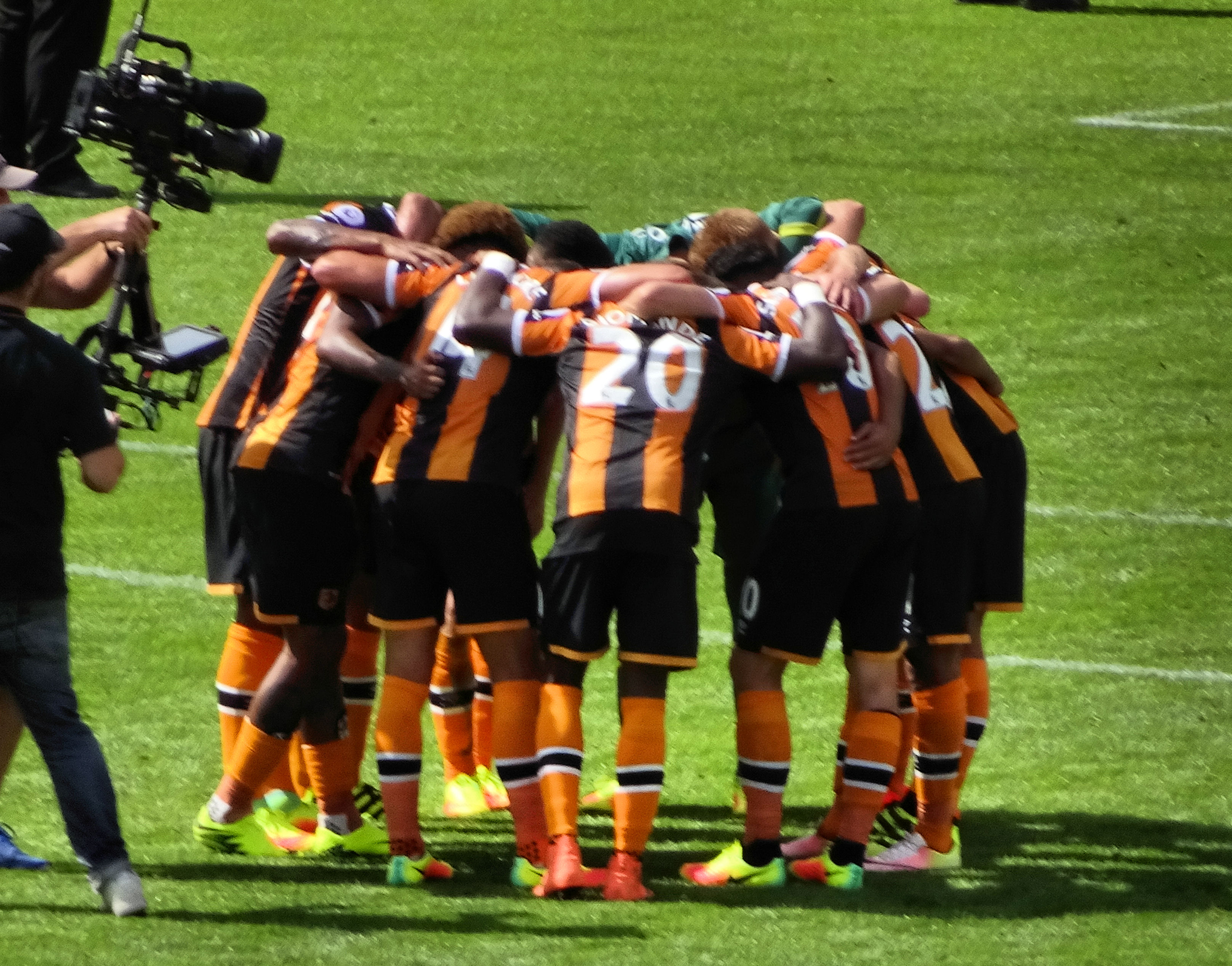 Tigers 2-1 Champions